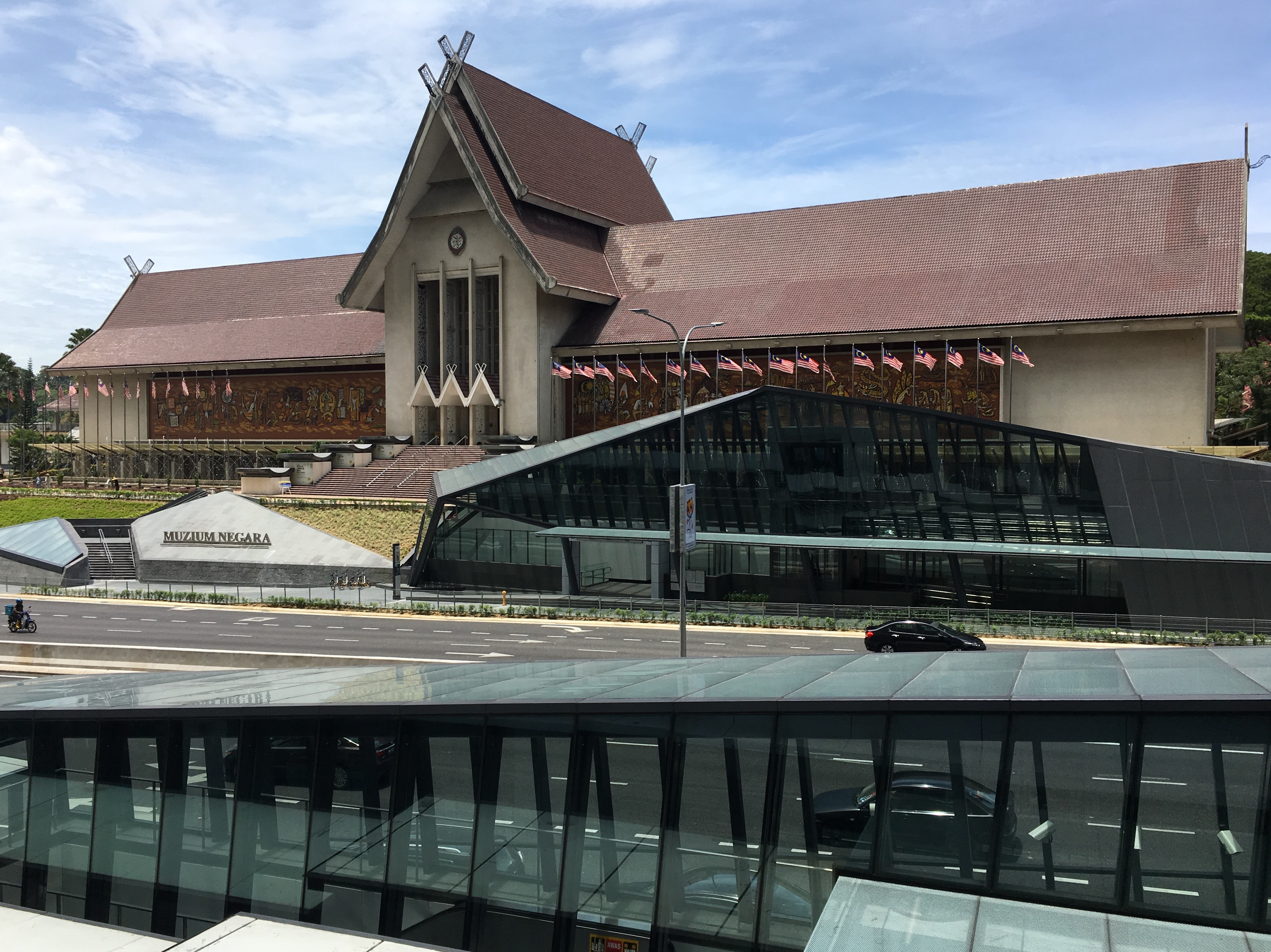 View of Entrance A (foreground) and Entrance B (below Muzium Negara building) of the Muzium Negara MRT Station.